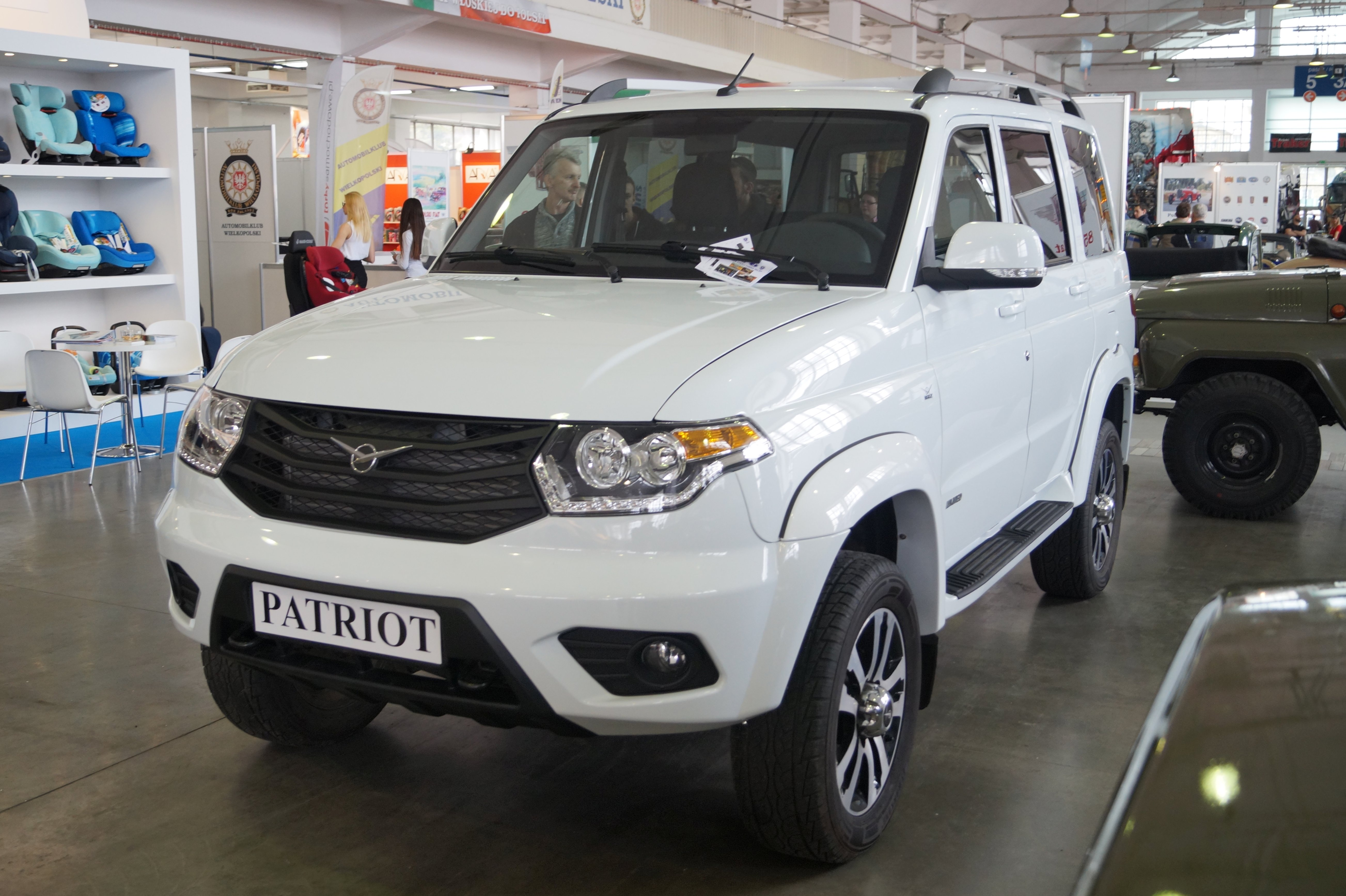 The making of this document was supported by Wikimedia Polska Association, within Wikigrant no. WG 2016-10. English | polski | +/− Przód UAZa Patriot na Motor Show Poznań 2016